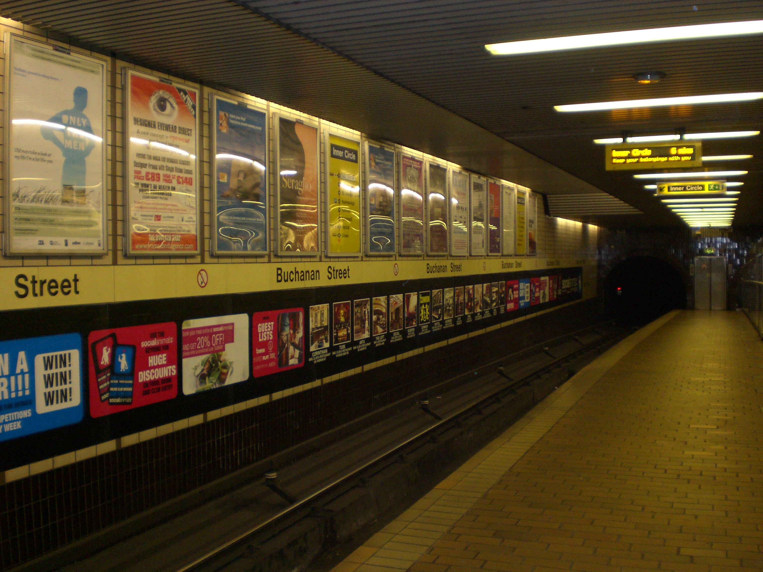 Buchanan Street subway station